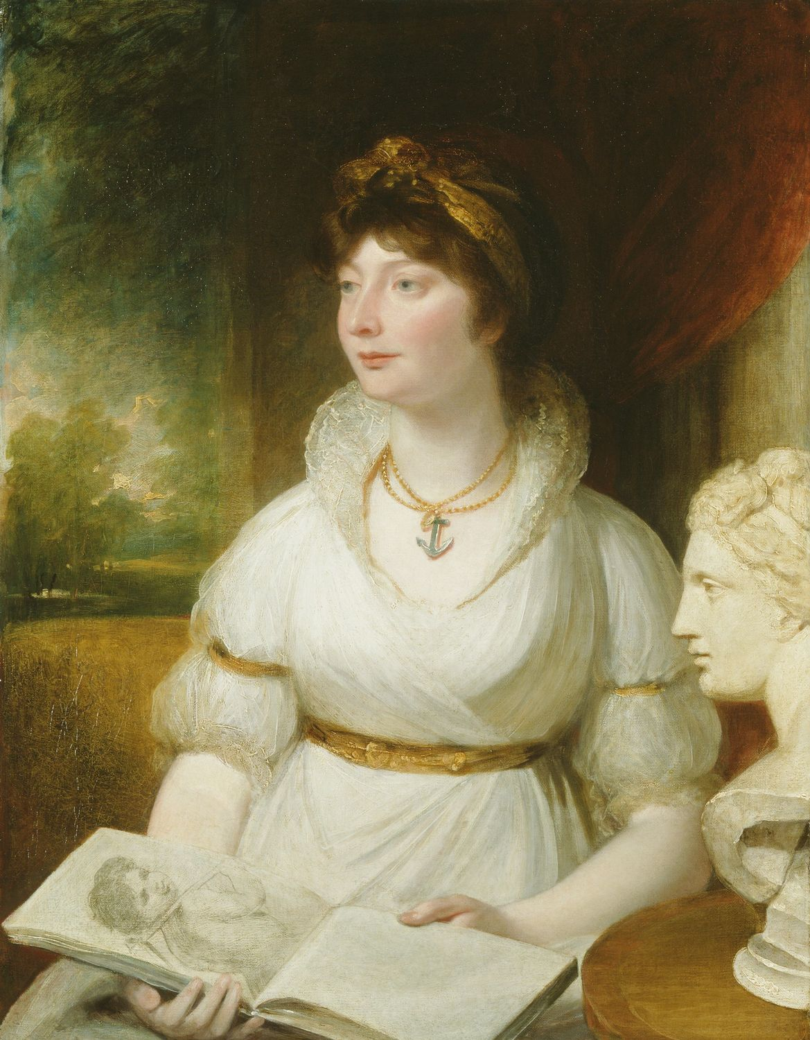 Princess Augusta (1768-1840)